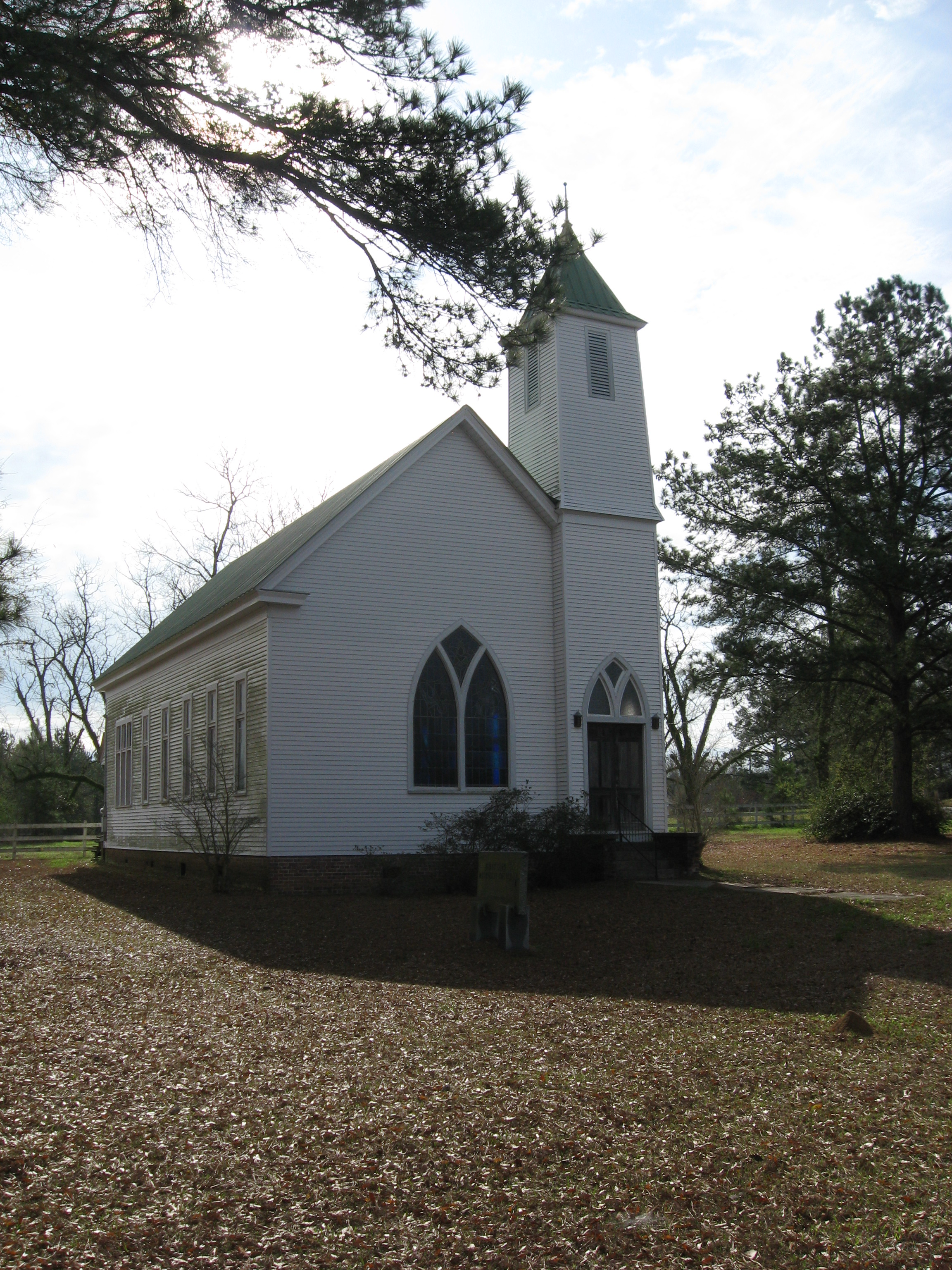 Burnt Corn, Alabama, Methodist Church. Photo 03/15/2015 by Craig Waters